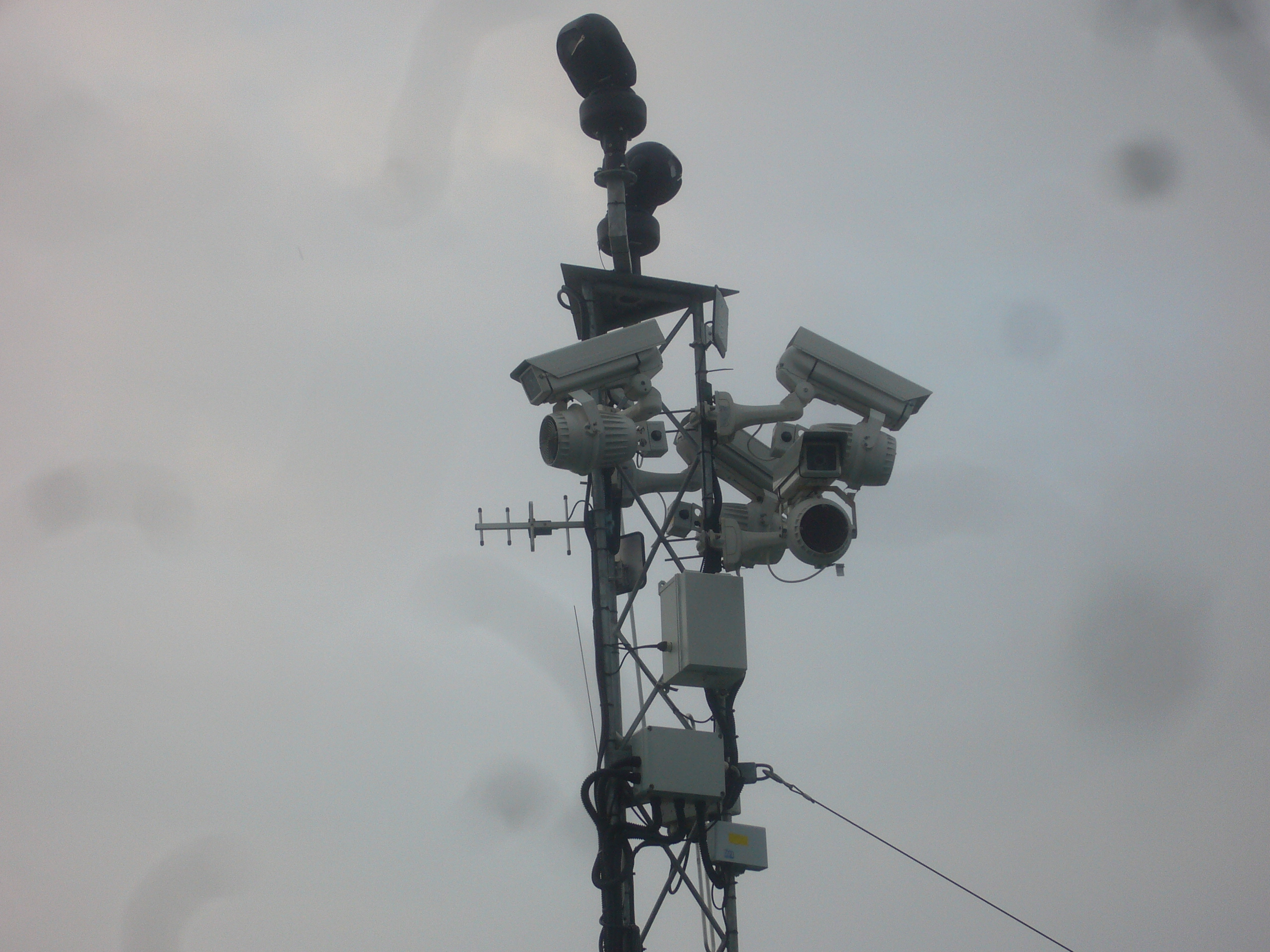 Cameras on the Shell compound fence, in Rossport, County Mayo, Ireland